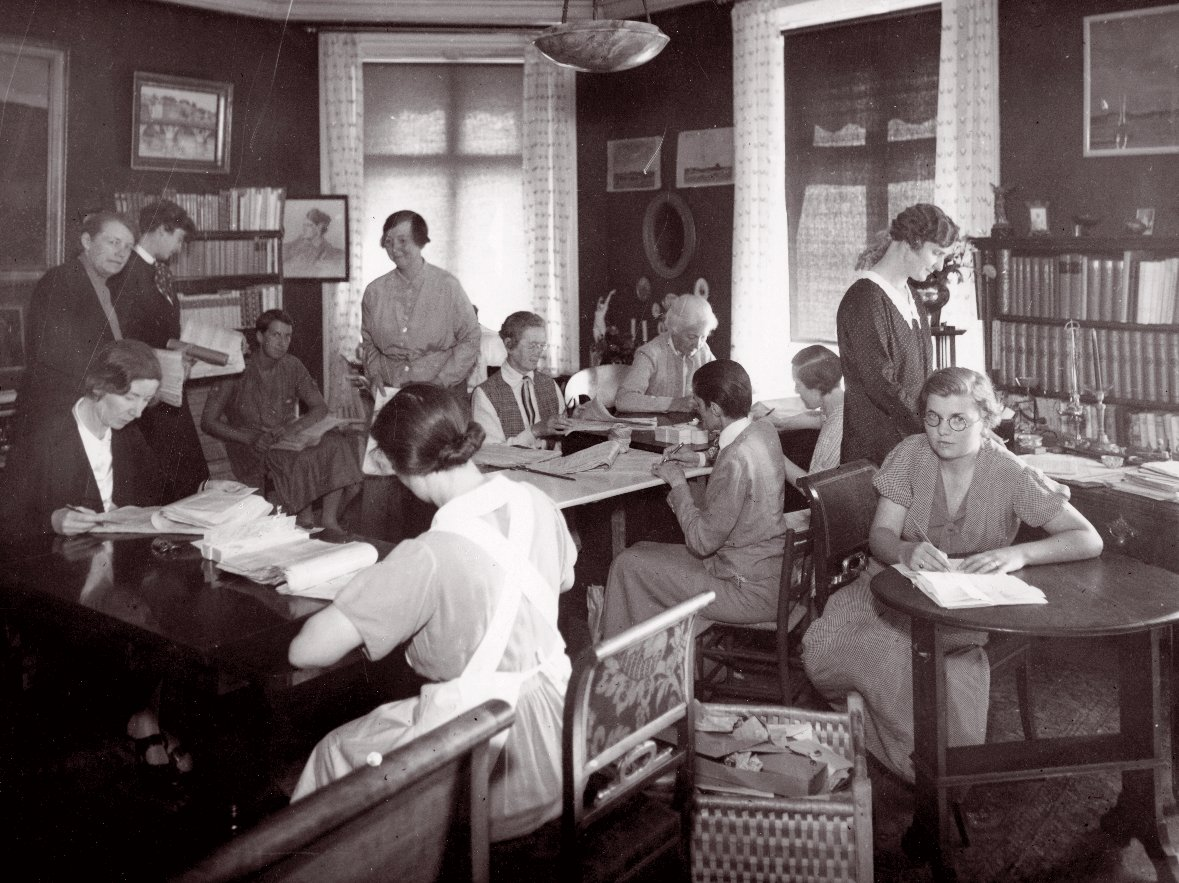 From the editing room of weekly magazine Tidevarvet. Standing to the left looking into the camera is chief editor Ada Nilsson. In the middle of the photo is Honorine Hermelin, facing away from the camera.